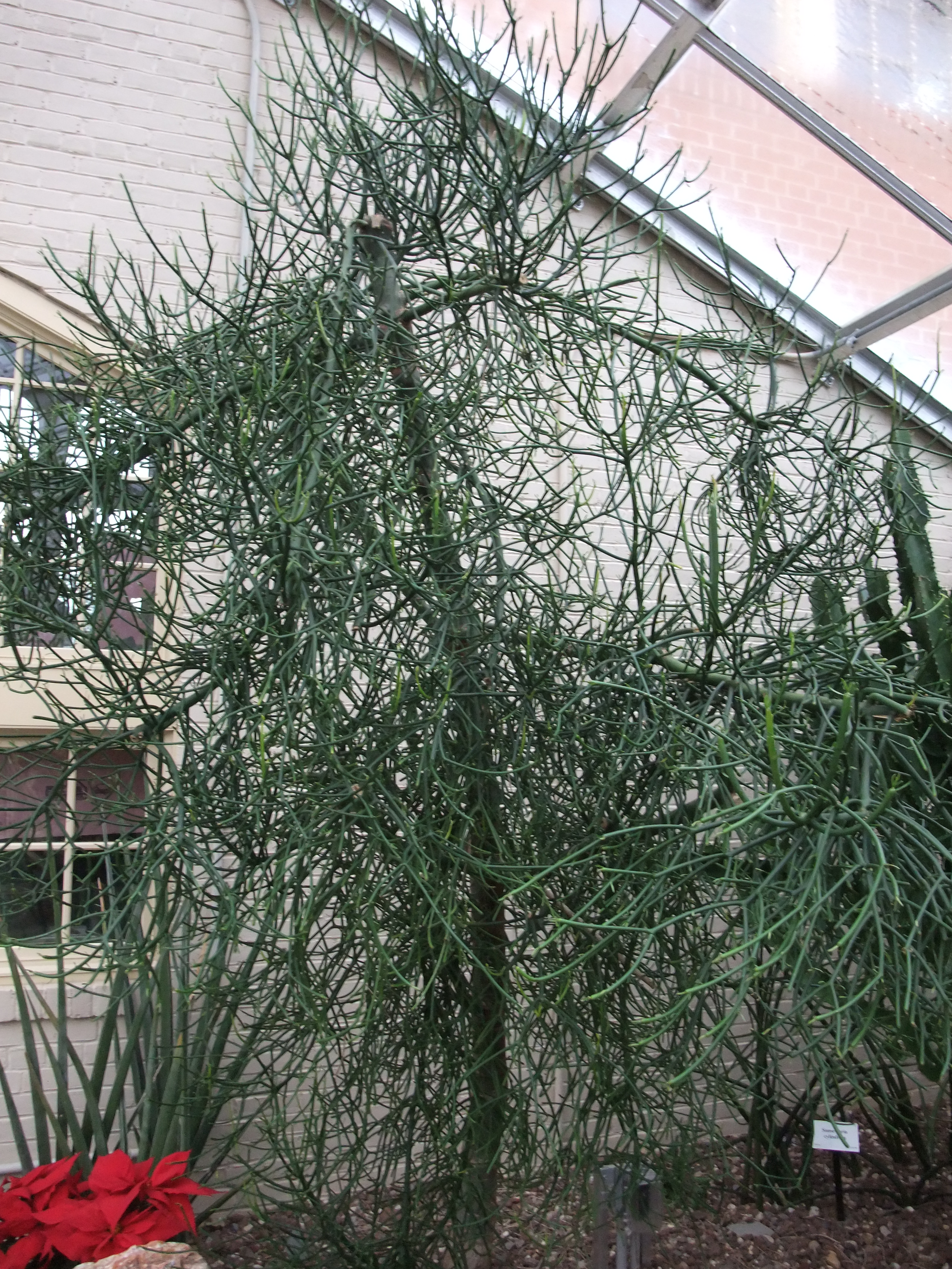 A photograph of Euphorbia tirucalli.